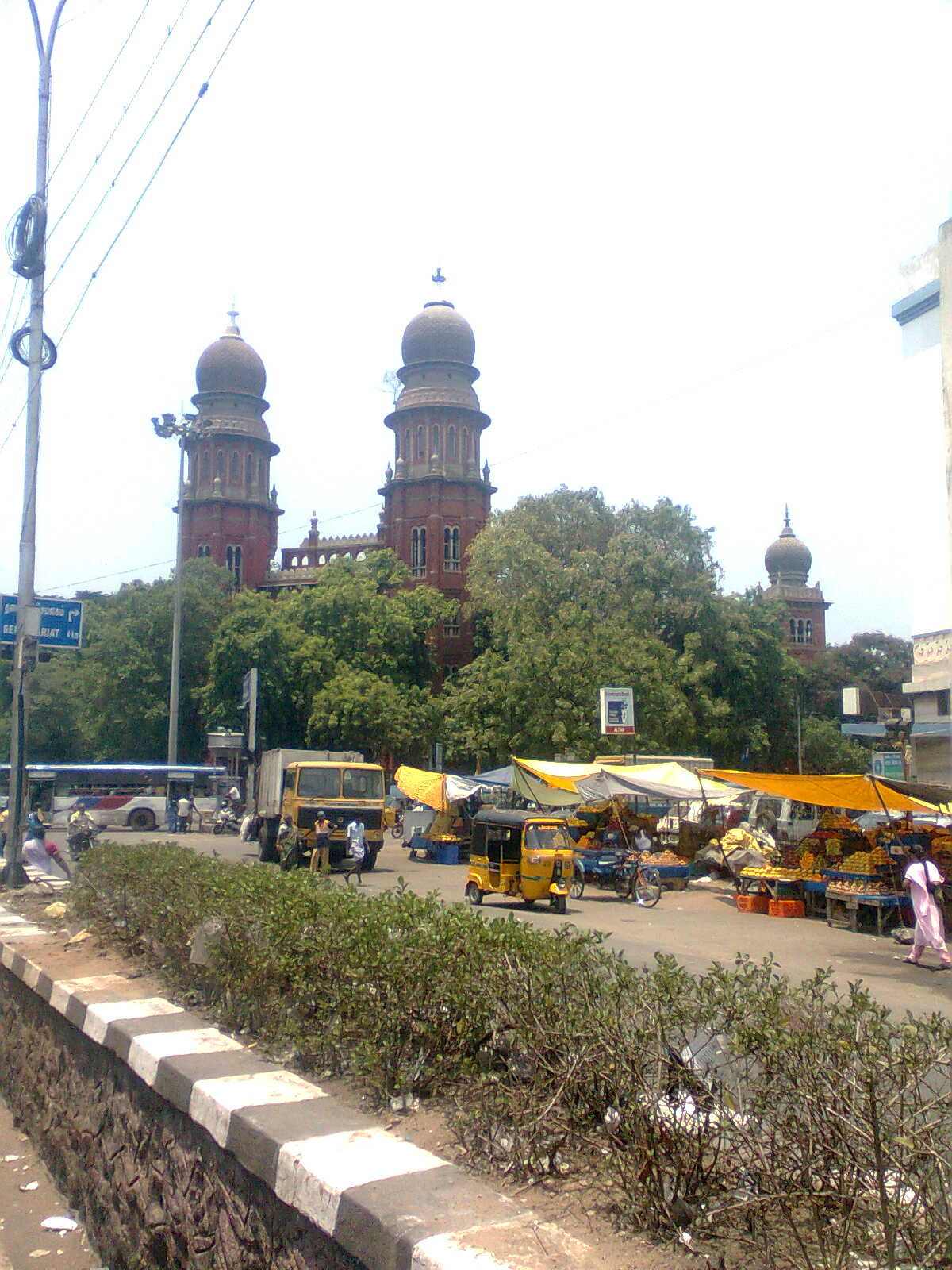 A long shot of two dombs of Madras High Court which was built in Indo-Sarcenic style